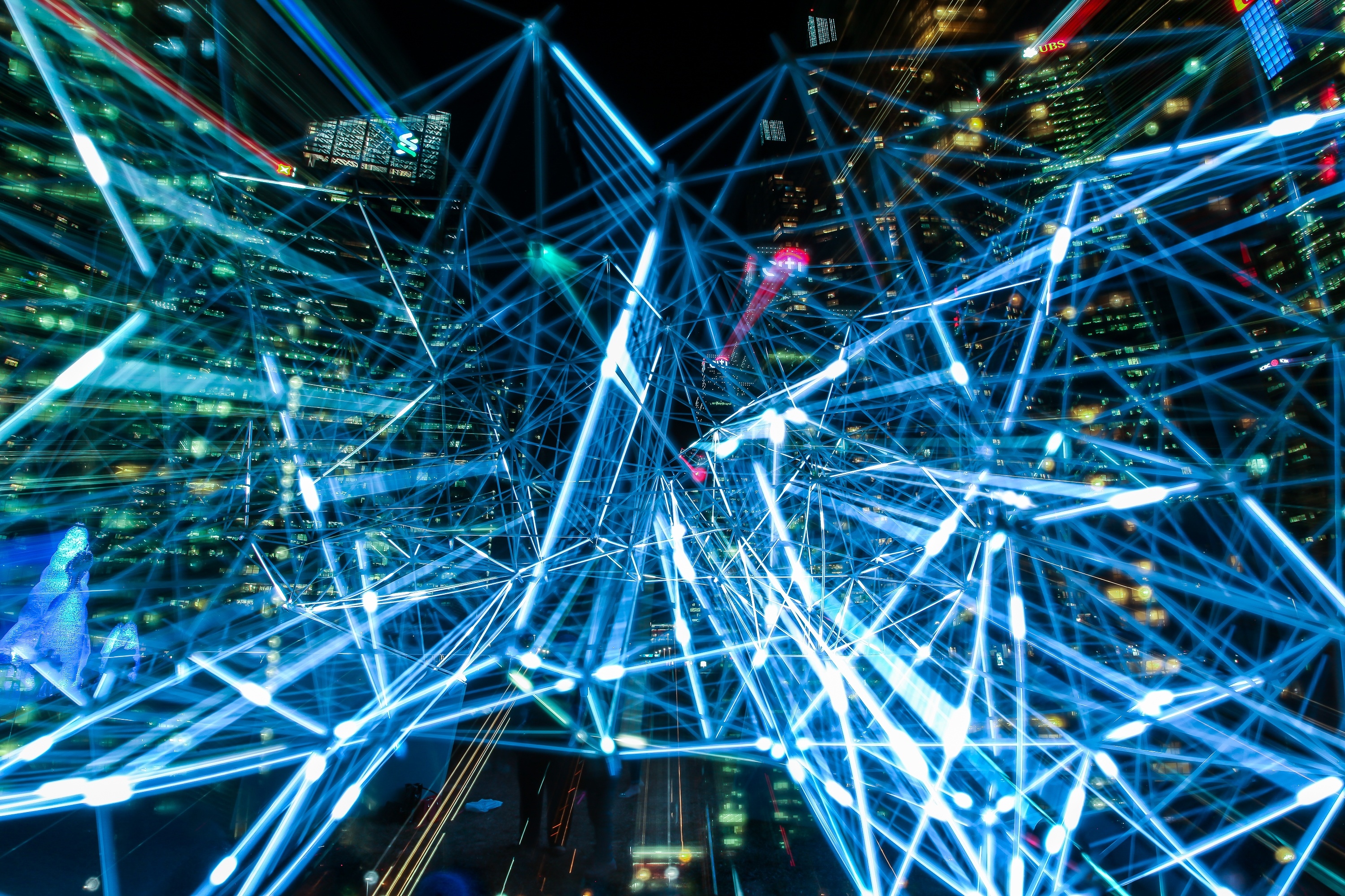 Picture of strings.